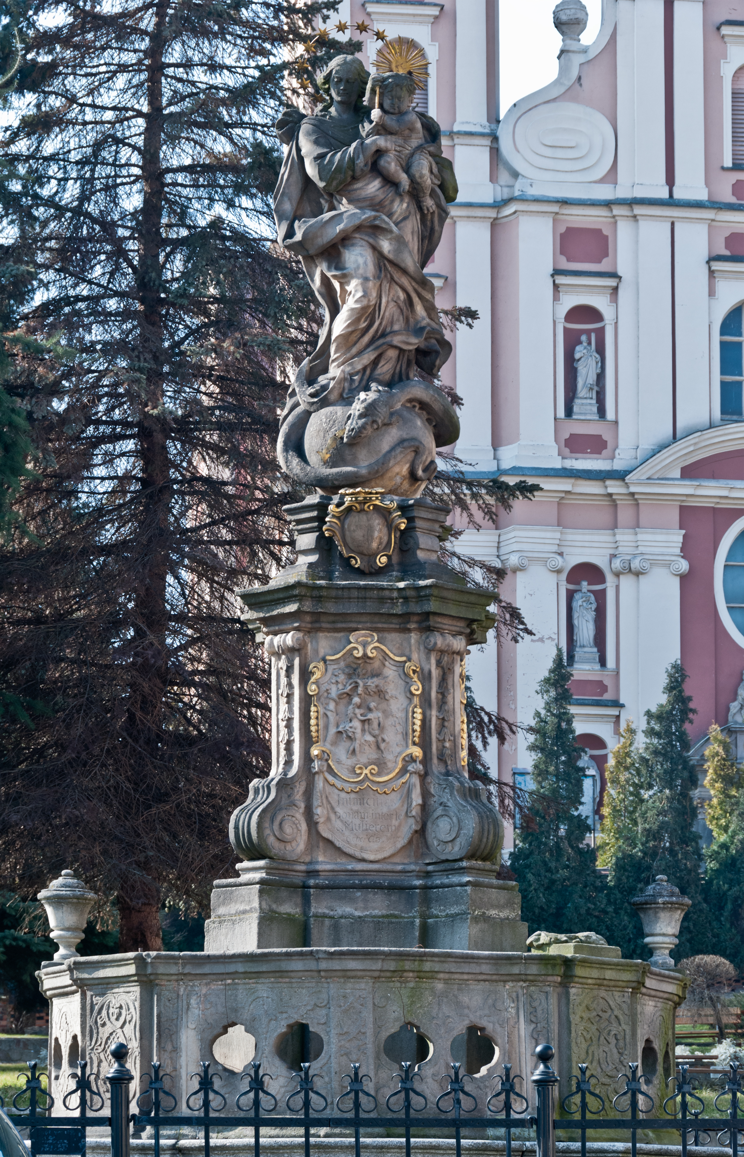 Saints Nicholas and Francis Xavier church in Otmuchów, Maria column at the church